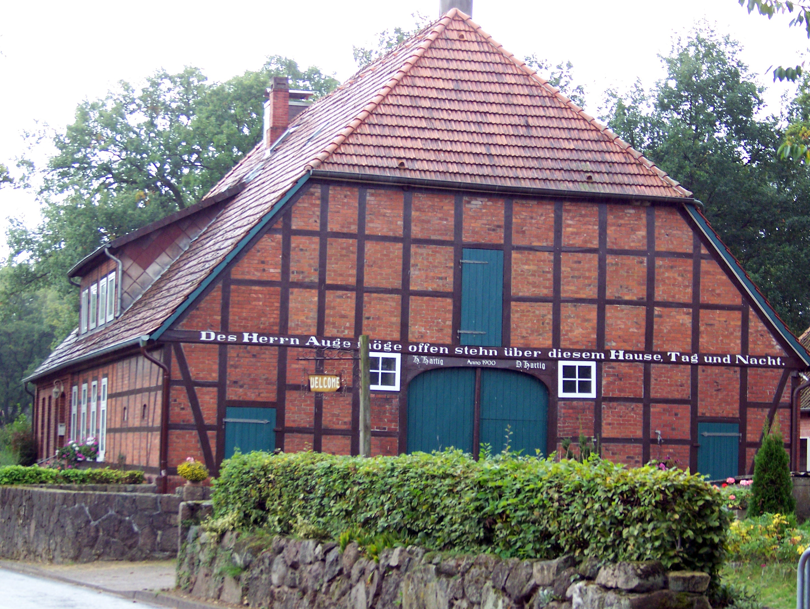 Undeloh, Lüneburg Heath: Traditional frame house. (Lower Saxony, Germany).